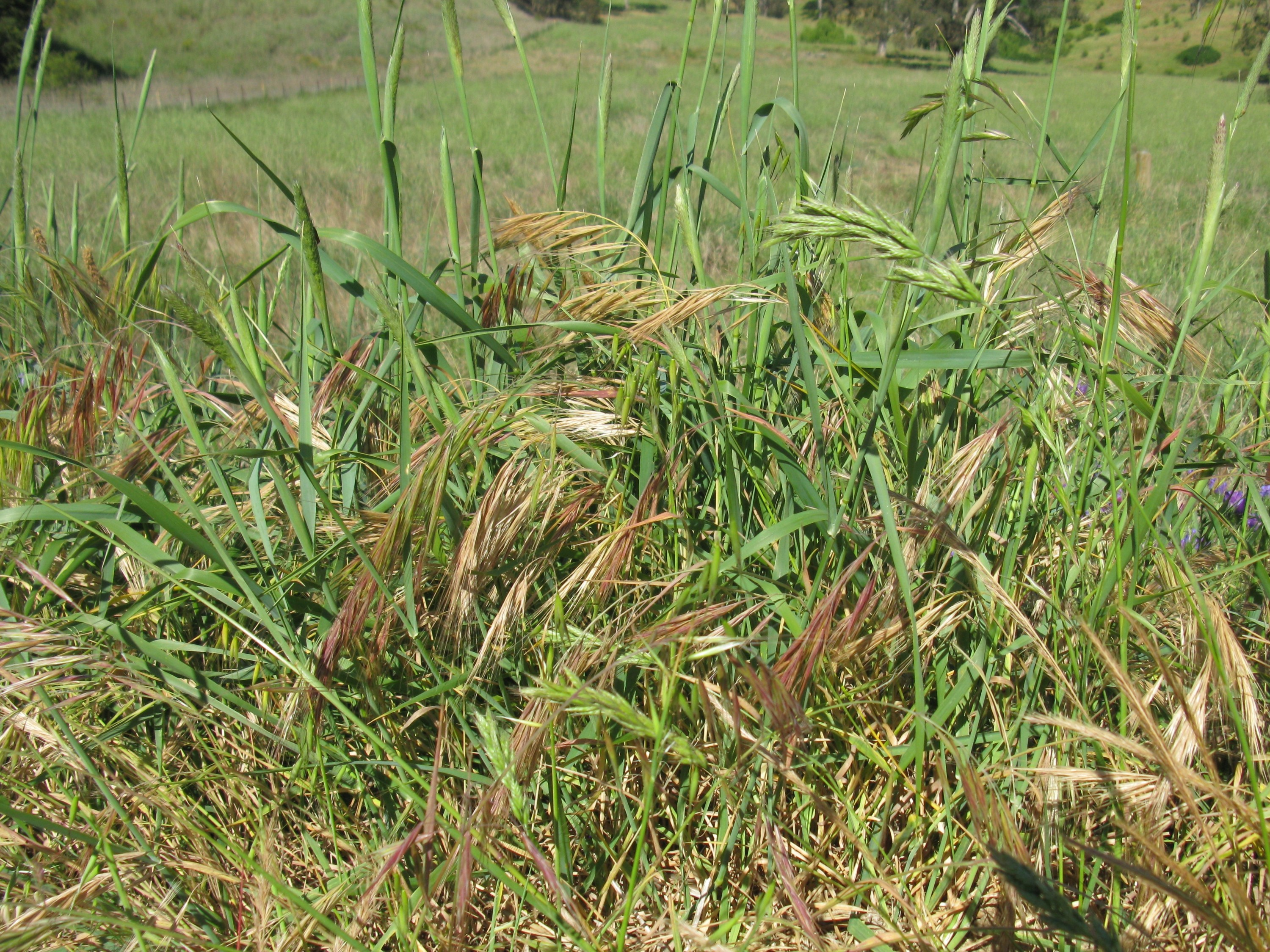 An indicator of disturbance and bare ground. It is a winter crop and environmental weed.